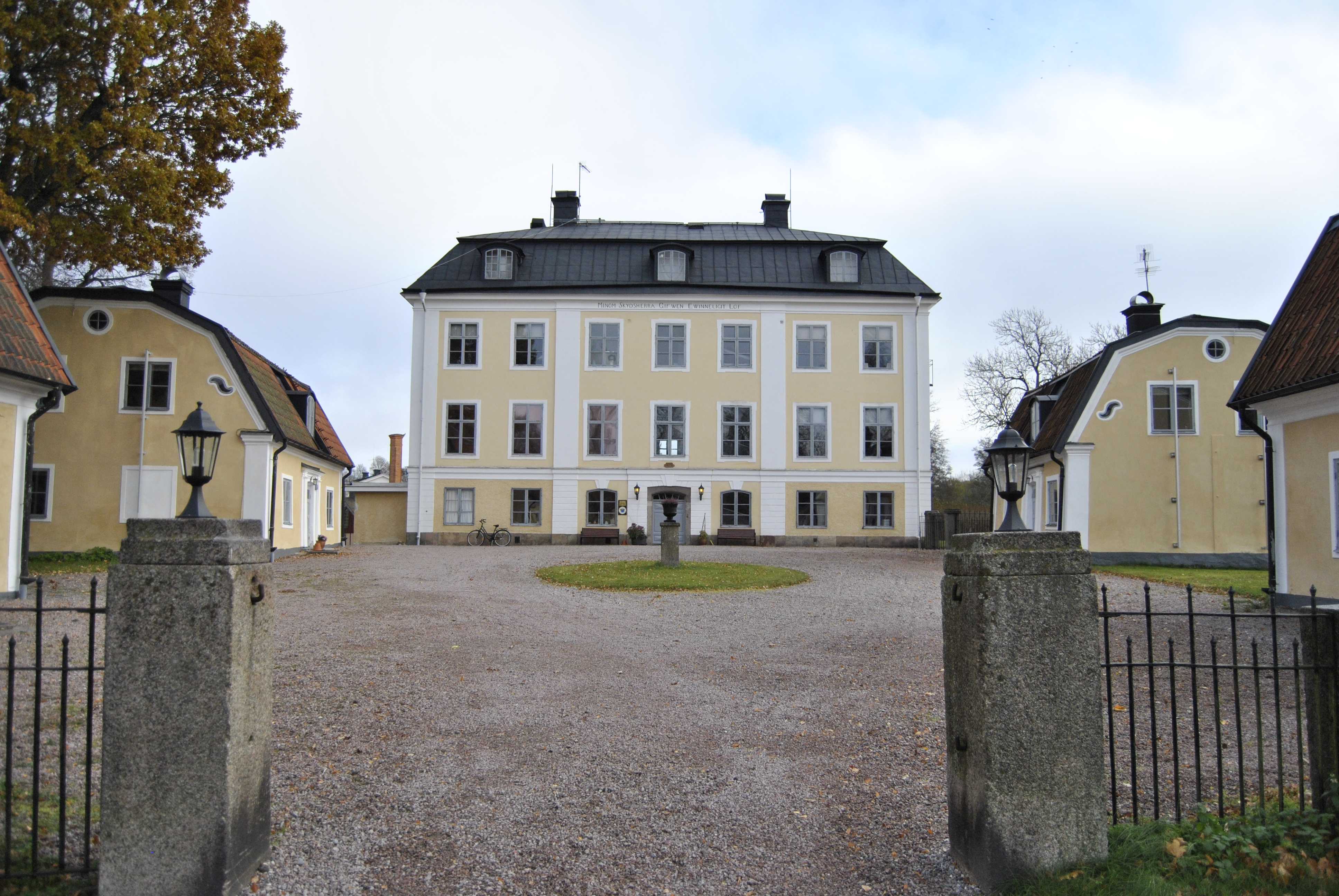 Schenströmska Mansion in Ramnäs, SWEDEN.